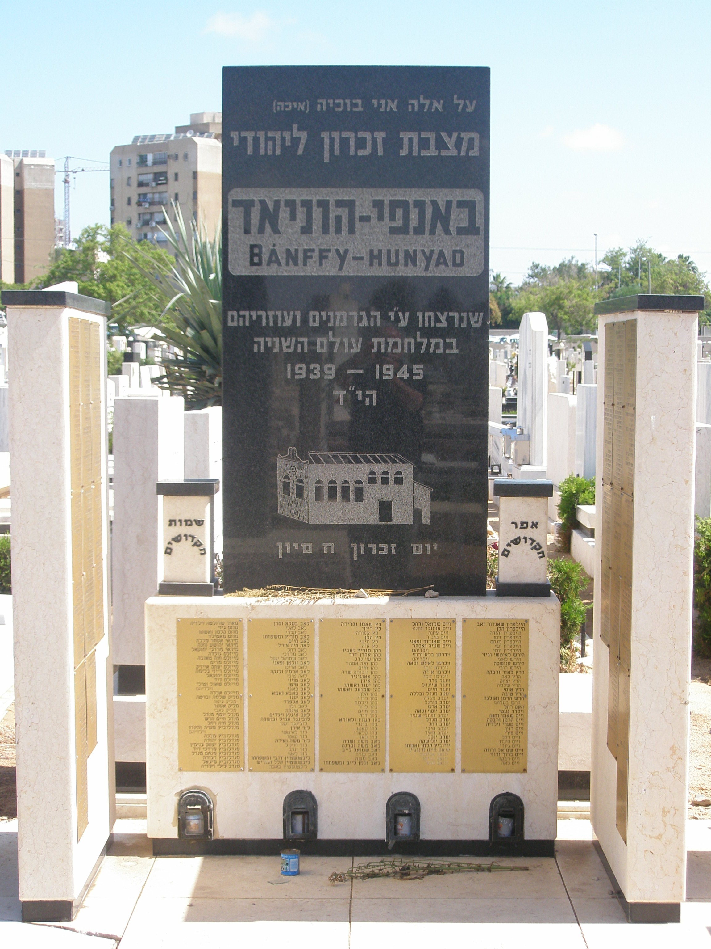 Banffy-Hunyad memorial at Holon Cemetery